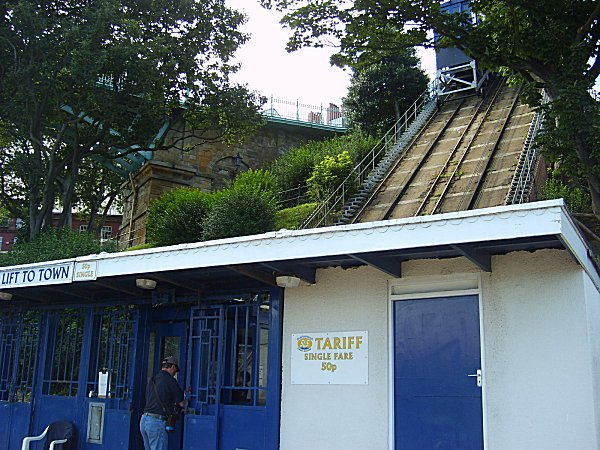 Scarborough Central Tramway.